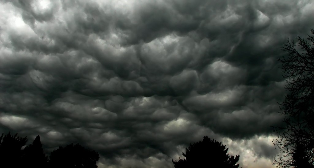 The clouds were amazing this afternoon during the storm.